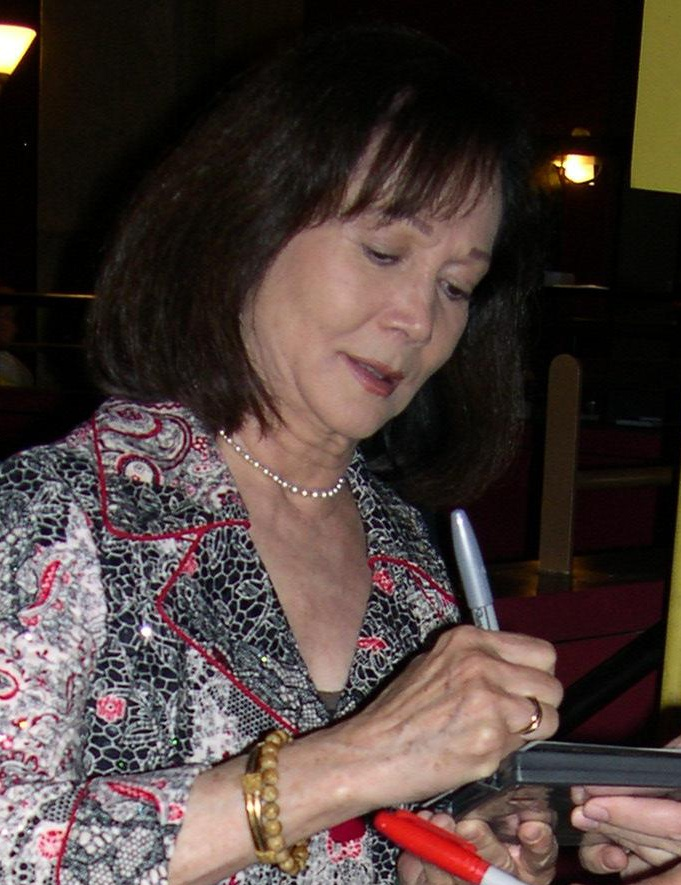 Actress Nancy Kwan at Grauman's Egyptian Theatre in Los Angeles, California, on August 11, 2011. In this photo, she gave an autograph to an attendee at an event hosted by the non-profit organization American Cinematheque. The event showcased To Whom It May Concern: Ka Shen's Journey, a 2010 documentary of Kwan's life and the 1961 film Flower Drum Song, which she starred in. (